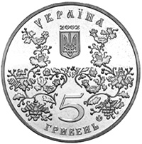 Coin of Ukraine